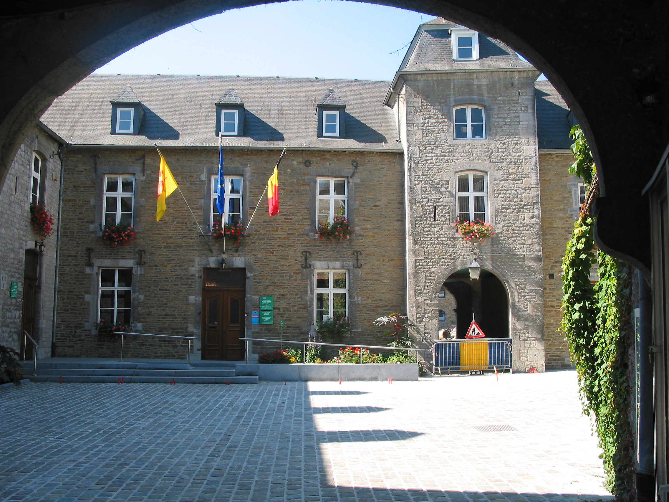 Yvoir (Belgium), the town hall.